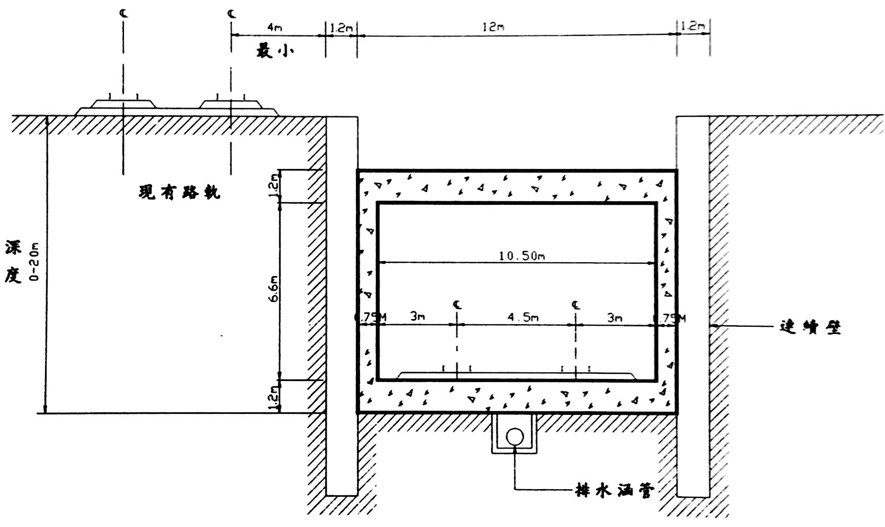 The profile section of underground tunnel